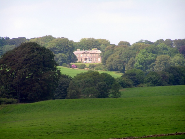 Argrennan House Nestled in its mature woodland